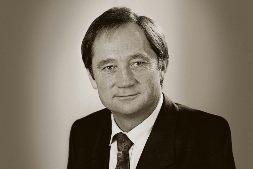 Reinhard Wirtgen